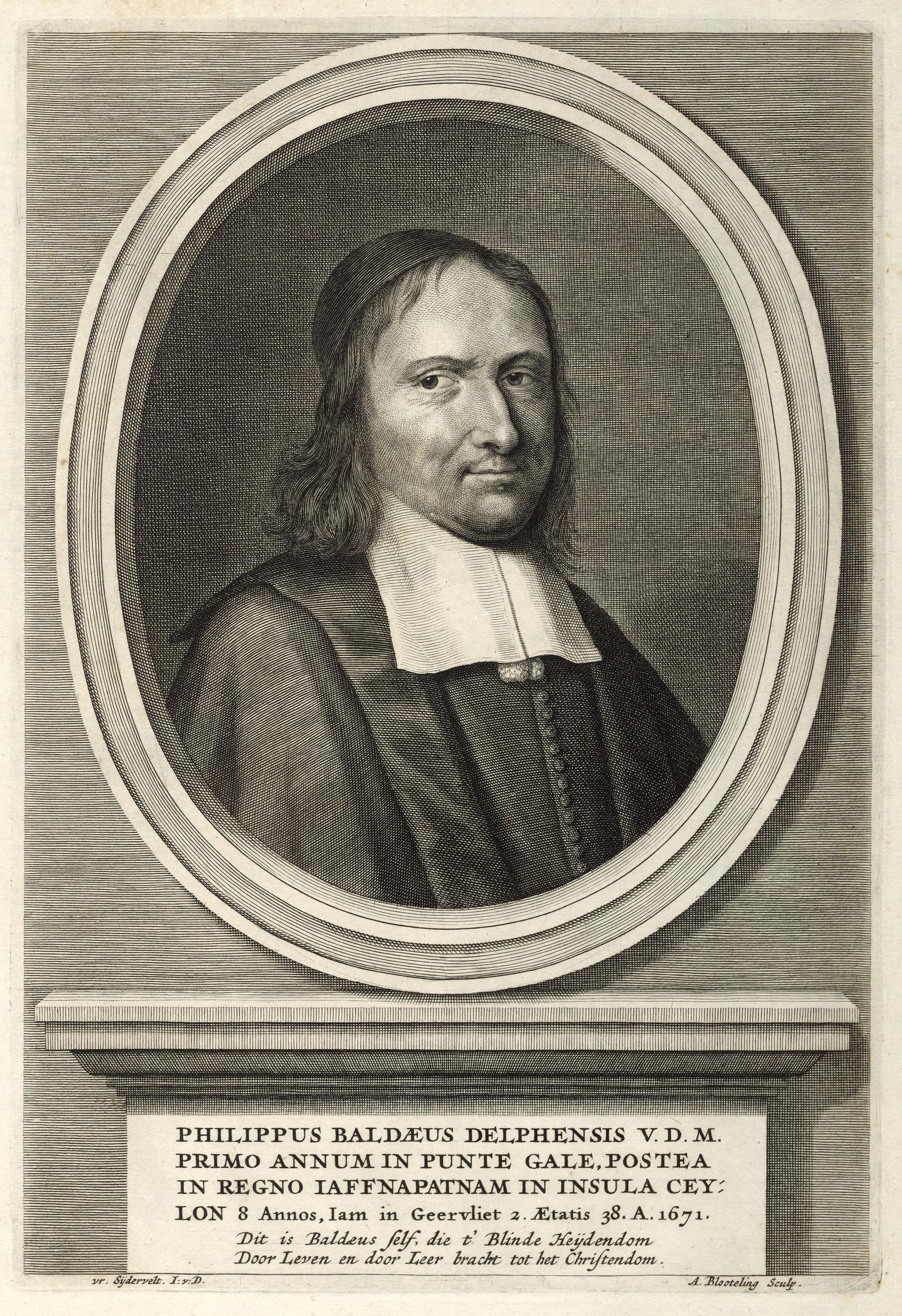 Portrait of Philippus Baldaeus. Philippus Baldaeus Delphensis V.D.M. / Primo Annum in Punte Gale, Postea / in regno Iaffnapatnam in insula Cey: / lon 8 Annos, Iam in Geervliet 2 Aetatis 38. A. 1671. / Dit is Baldeus self, die t' Blinde Heijdendom / Door Leven en door Leer bracht tot het Christendom.. Baldaeus was a preacher and the first Dutch preacher in Negapatnam. He was also the first Dutchman to learn Tamil.